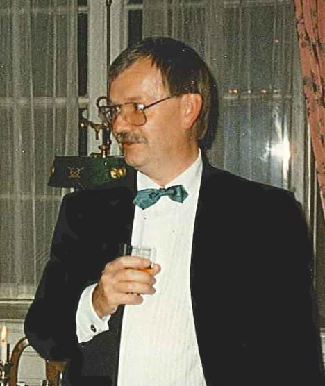 Hans Ragnemalm (born 1940), Swedish jurist, professor and Parliamentary Ombudsman. Photo from 1989.